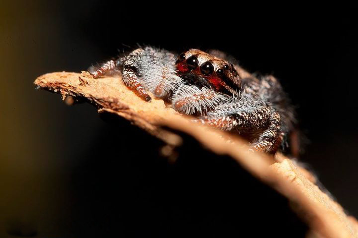 Holcolaetis sp. Salticidae, Zimbabwe